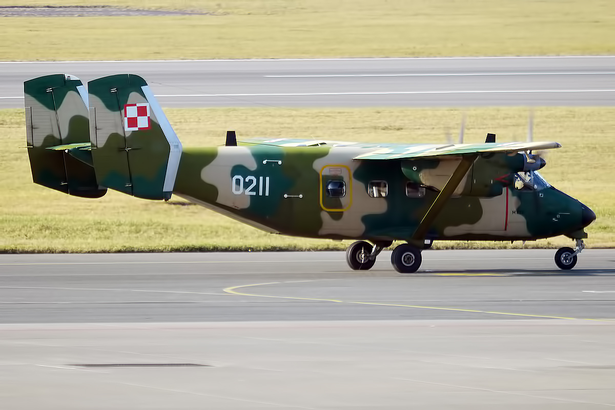 Polish Air Force, 0221, PZL-Mielec M-28B/PT Skytruck